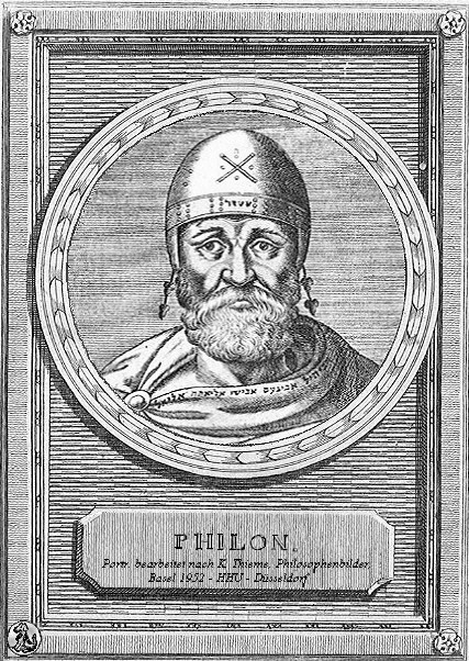 (Philo "Judaeus") von Alexandreia/Philo(n) of Alexandria